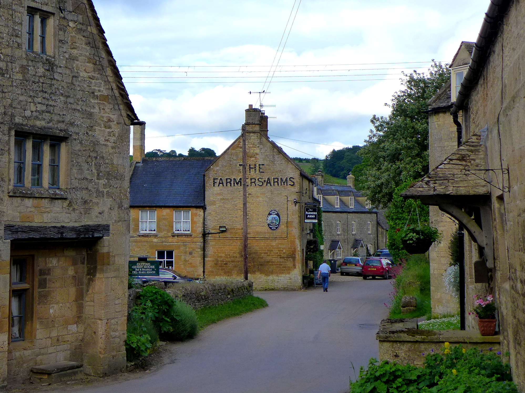 The Farmers Arms pub in Guiting Power, Cotswolds.